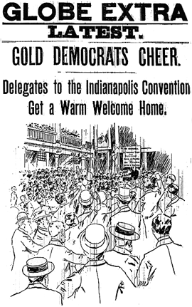 GLOBE EXTRA LATEST. GOLD DEMOCRATS CHEER. Delegates to the Indianapolis Convention Get a Warm Welcome Home. Headline and drawing about the 1896 Gold Democratic Convention